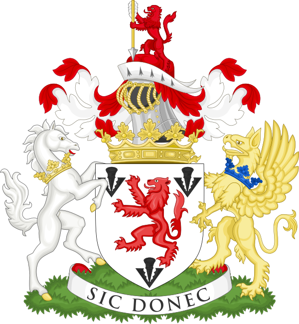 coat of arms of the duke of Sutherland Arms. Argent a Lion rampant Gules between three Pheons Sable. Crest. On a Chapeau Gules turned up Ermine a Lion rampant of the first supporting an Arrow Or feathered and headed Argent. Supporters. Dexter: a Horse Argent ducally gorged Or; Sinister: a Griffin Or ducally gorged Azure. Motto. Sic Donec (Thus until). Cracroft's Peerage